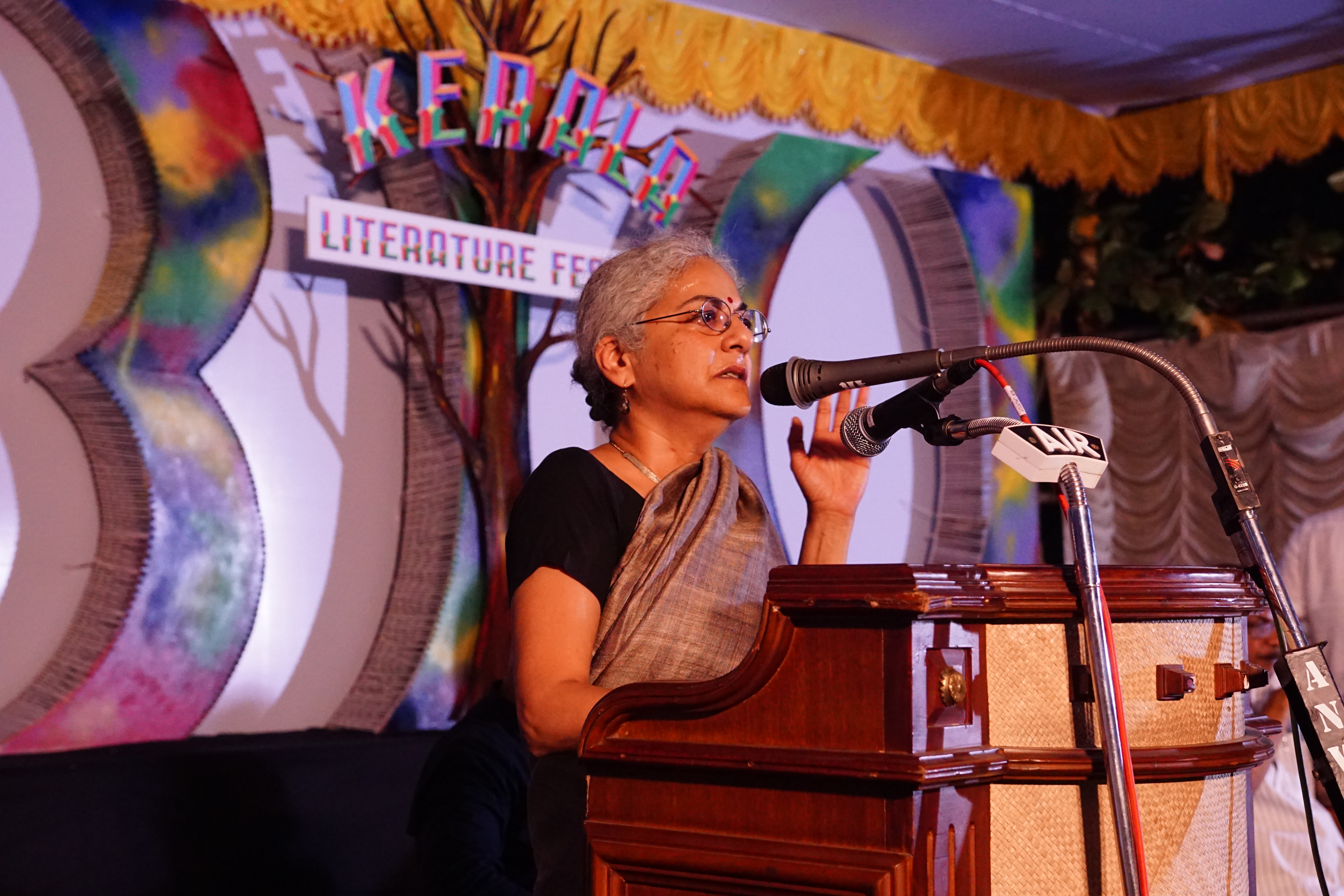 Keralaliteraturefestival